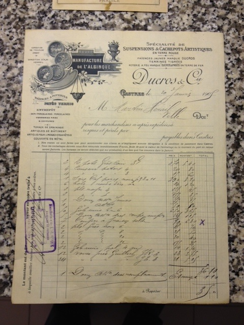 Ducros et compagnie, surement un des premiers papiers à entete de l'entreprise